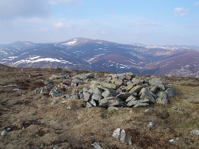 Glas Tulaichean viewed from Meall a Choire Bhuidhe The track up Glas Tulaichean is very prominent, looking like a motorway for Munro baggers.